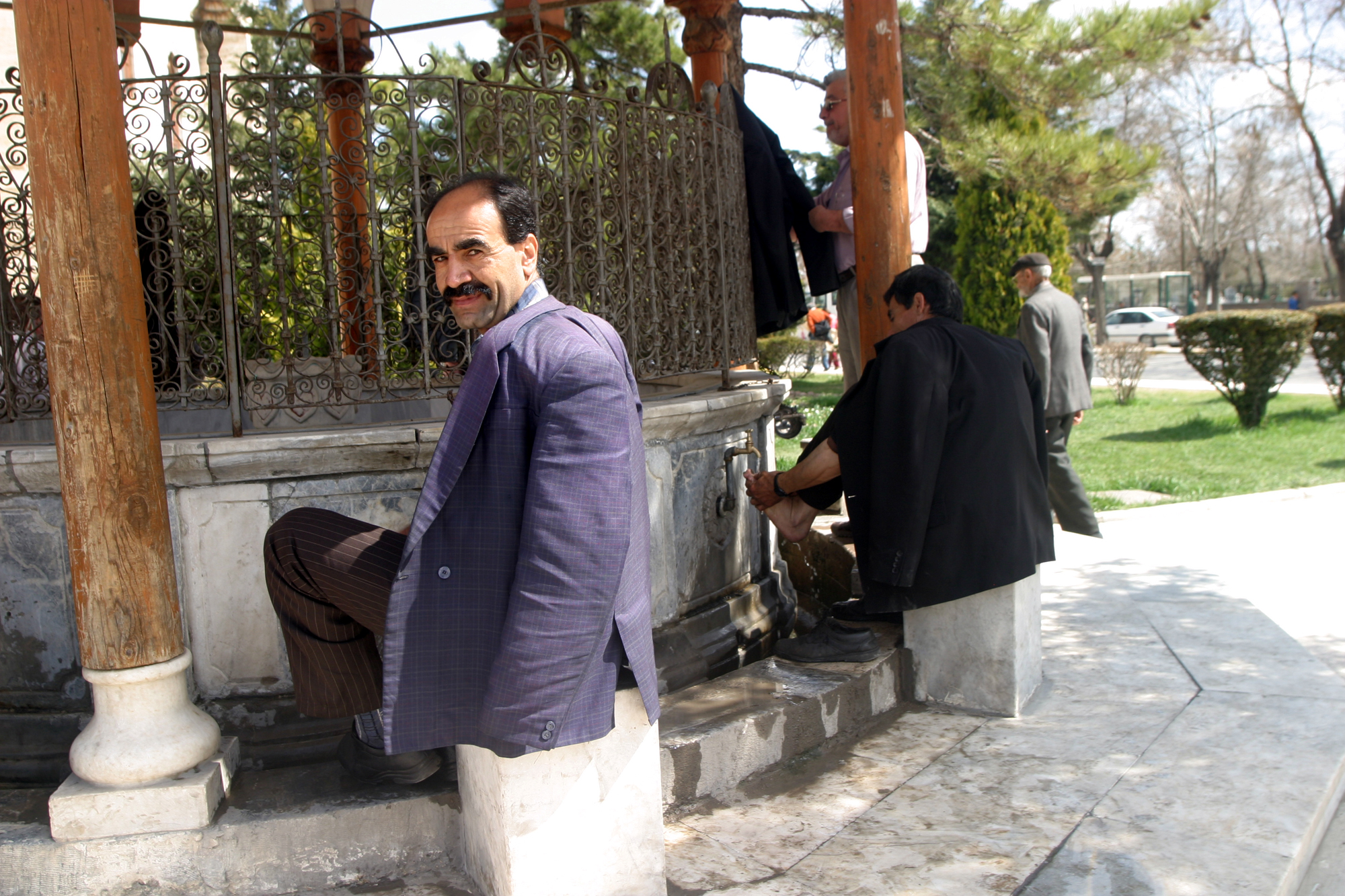 Men in Turkey washing before prayer performing Wudu